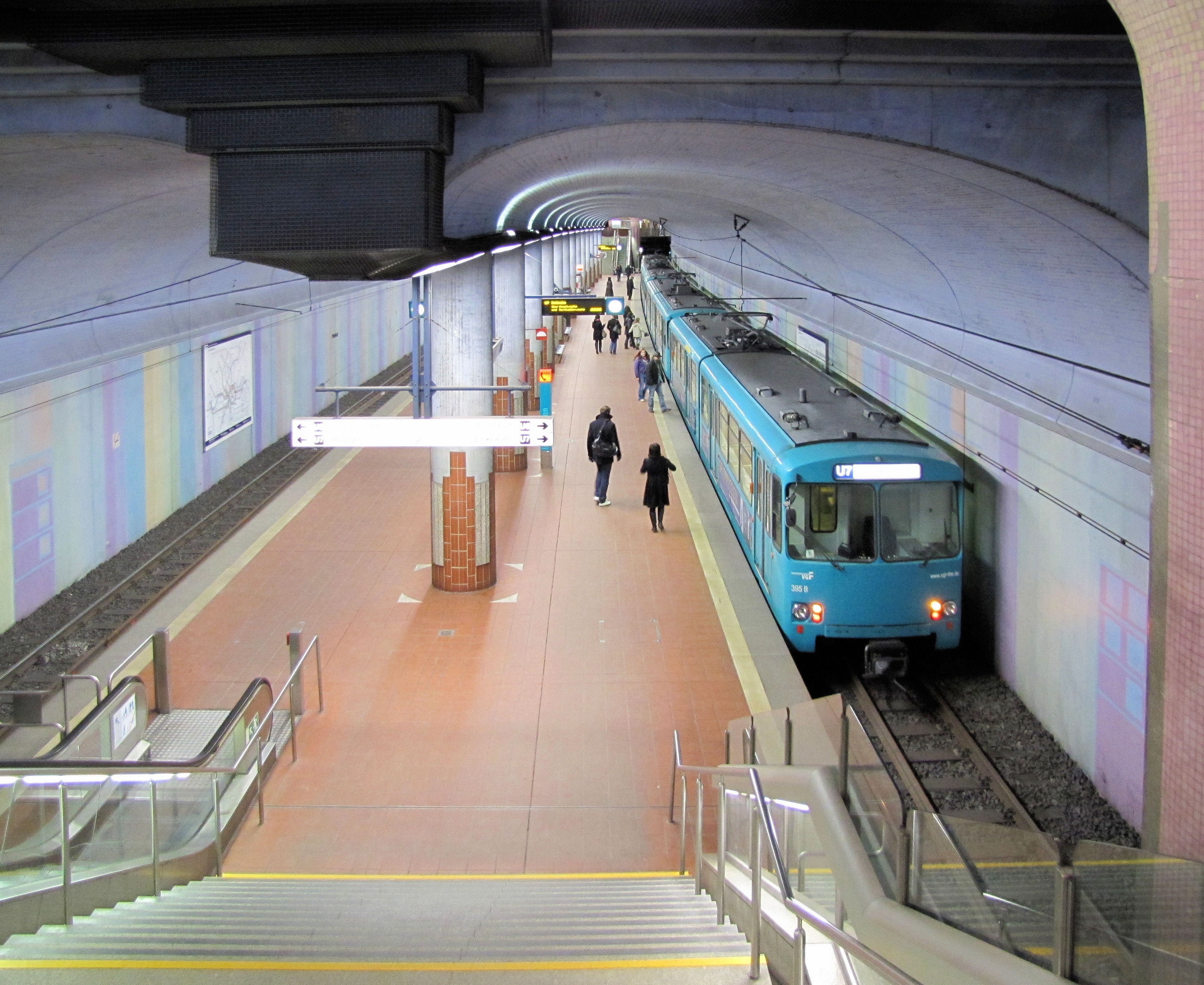 Underground station "Westend", of "U 6" + "U 7" (C-line), at Frankfurt-Westend, Germany.